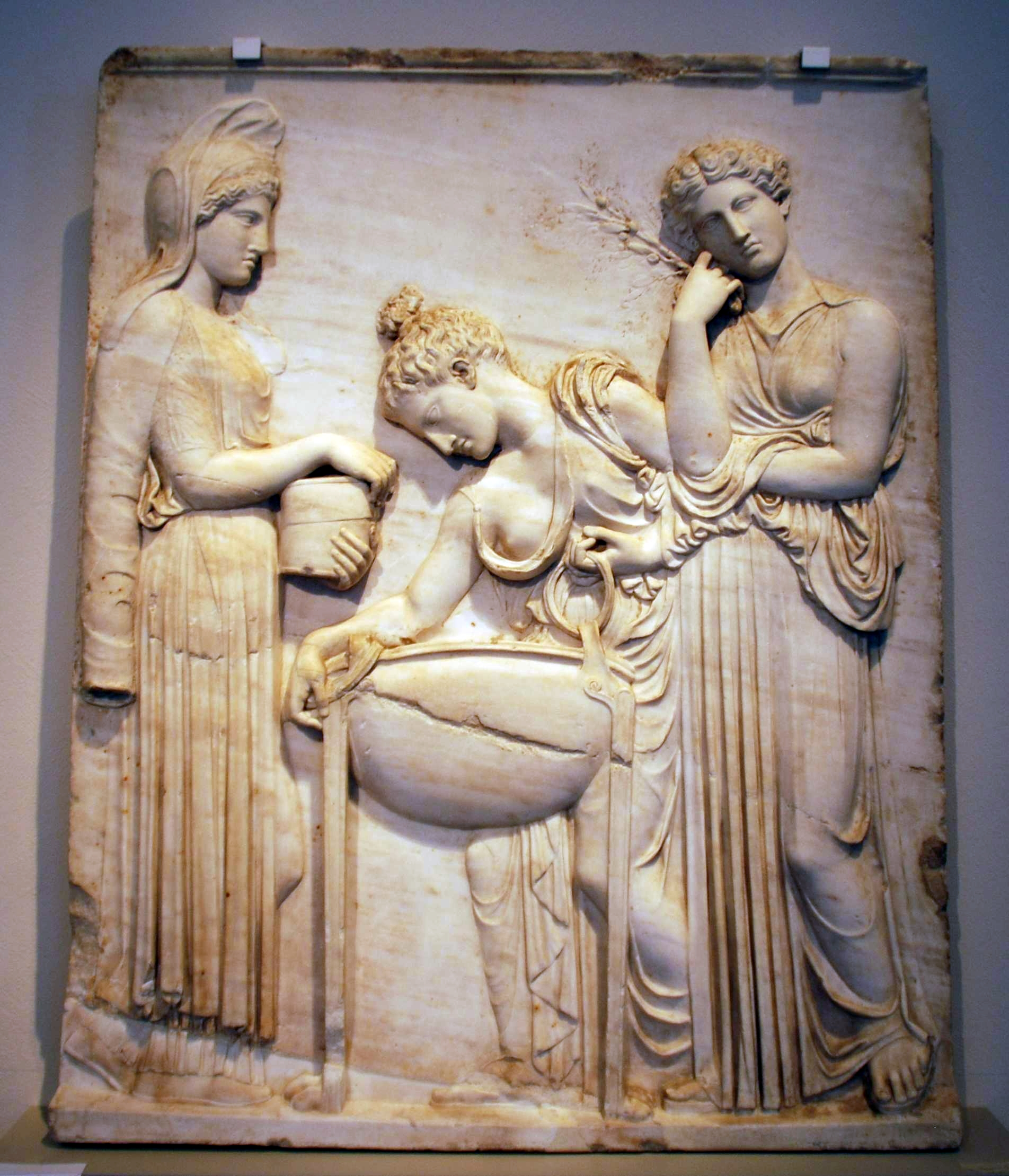 Relief of Medea and the Peliades since 1828 in the Antikensammlung Berlin (Inv.-Nr. Sk 925 [K 186]), pentelic marble, copie after an greek original ca. 420/10 B.C., modern changes; high 116,5 cm, wisth 89-96 cm